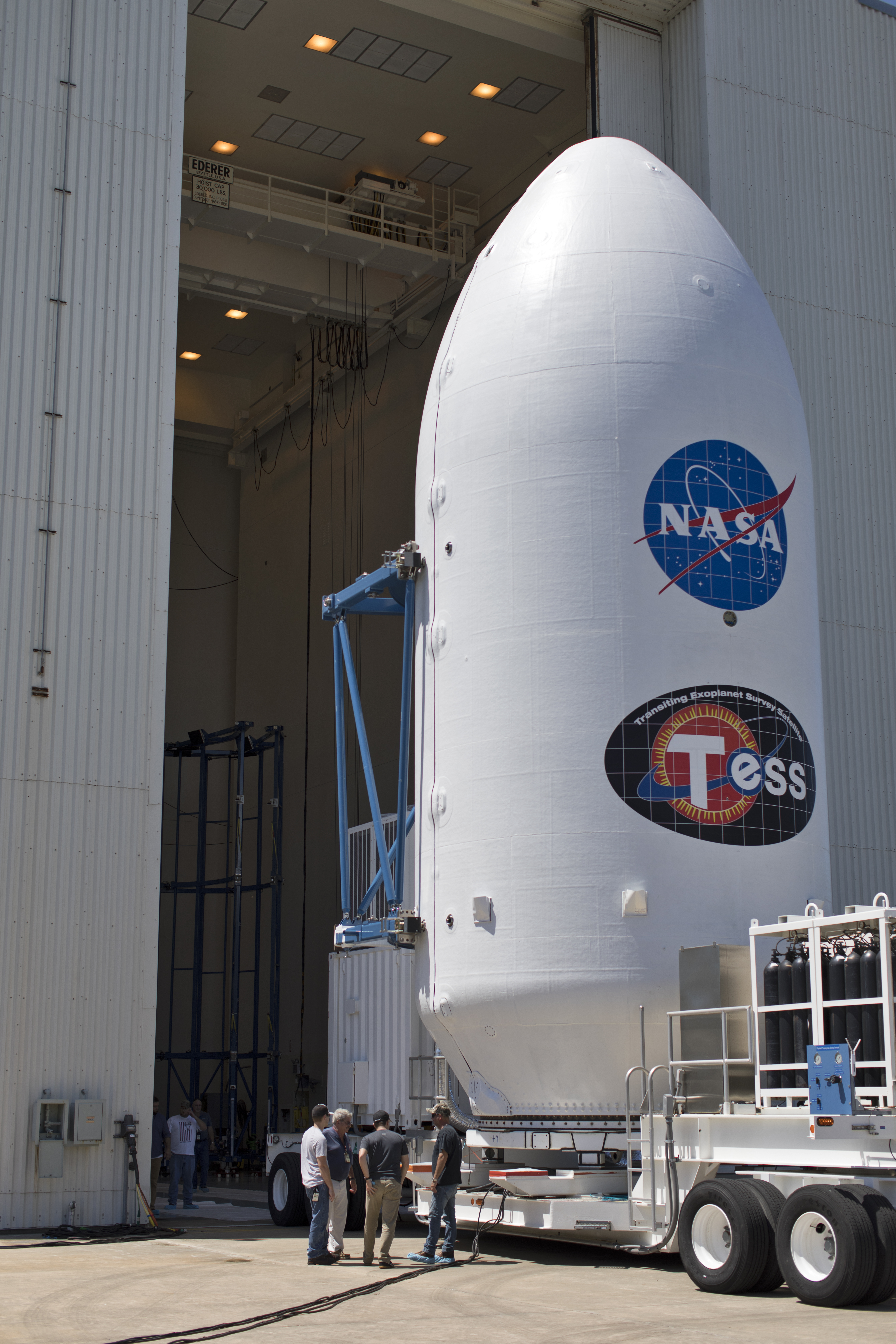 The payload fairing for NASA's Transiting Exoplanet Survey Satellite (TESS) is moved inside the Payload Hazardous Servicing Facility at the agency's Kennedy Space Center in Florida. Inside the facility, TESS will be encapsulated in the payload fairing. The satellite is scheduled to launch atop a SpaceX Falcon 9 rocket from Space Launch Complex 40 at Cape Canaveral Air Force Station on April 16. The satellite is the next step in NASA's search for planets outside our solar system, known as exoplanets. TESS is a NASA Astrophysics Explorer mission led and operated by MIT in Cambridge, Massachusetts, and managed by NASA’s Goddard Space Flight Center in Greenbelt, Maryland. Dr. George Ricker of MIT’s Kavli Institute for Astrophysics and Space Research serves as principal investigator for the mission. Additional partners include Orbital ATK, NASA’s Ames Research Center, the Harvard-Smithsonian Center for Astrophysics and the Space Telescope Science Institute. More than a dozen universities, research institutes and observatories worldwide are participants in the mission. NASA’s Launch Services Program is responsible for launch management.